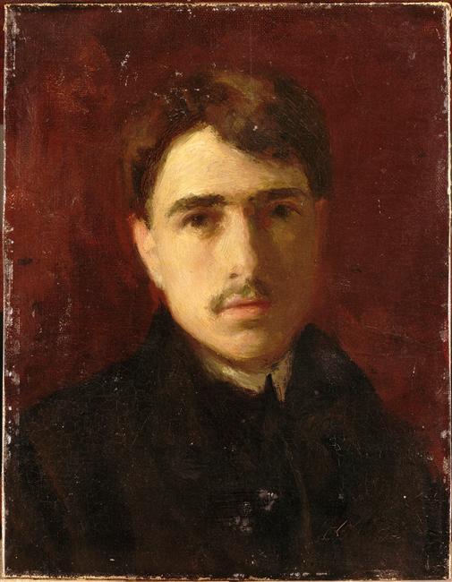 Roger de La Fresnaye, 1905-07, oil on canvas, 25 x 19.5 cm, Musée National d'Art Moderne